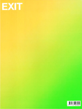 Cover of EXIT s/s 09